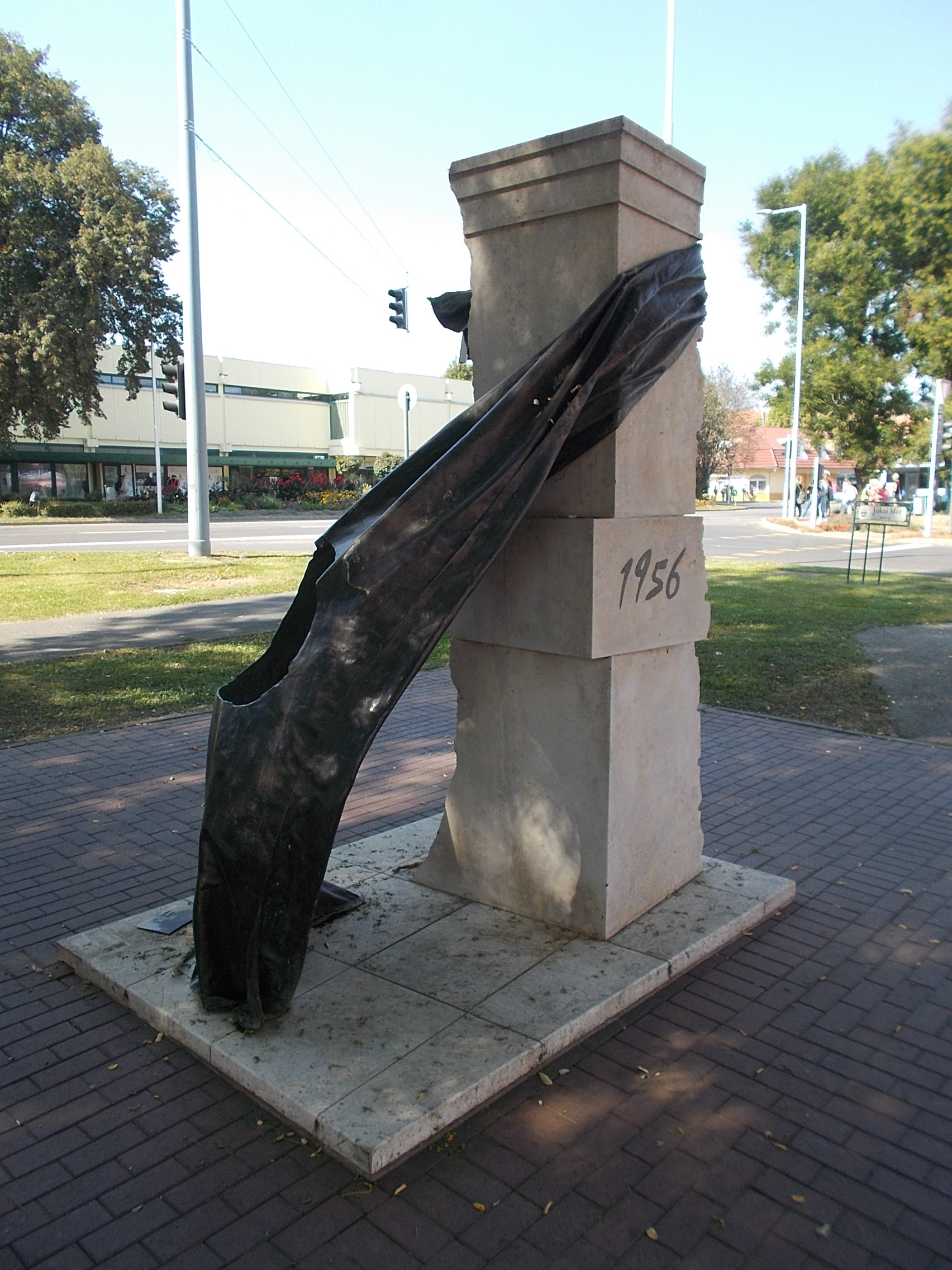 Memorial of the 1956 Hungarian Revolution by Tamás Baráz (2006 Bronze 'flag' limestone pillar, modern, cityscape significant) - Hunyadi tér, Downtown, Dombóvár, Tolna County, Hungary.